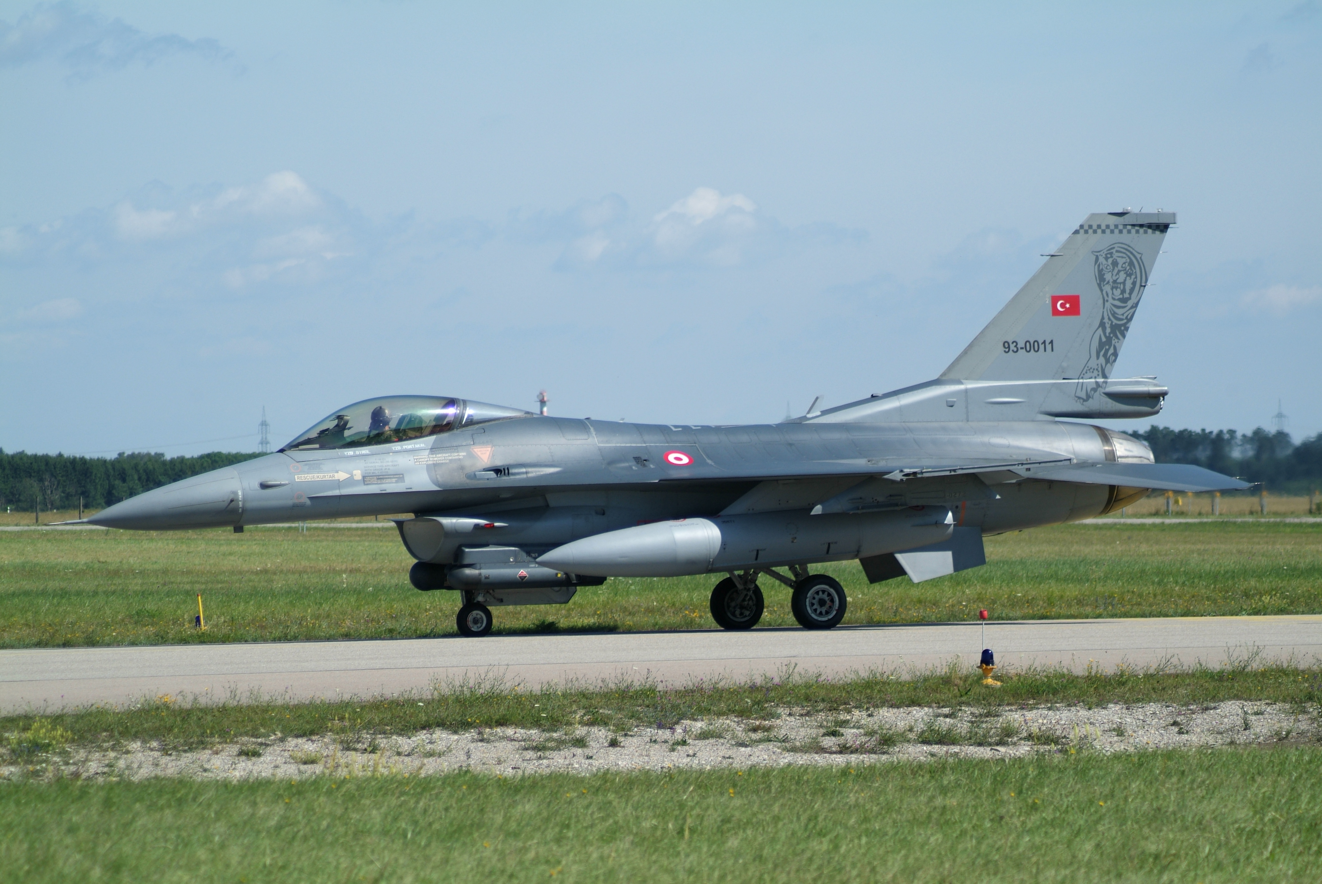 Turkish F-16C